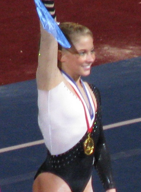 Shawn Johnson atop the podium at the 2008 U.S. National Championships (all-around gold medal winner)